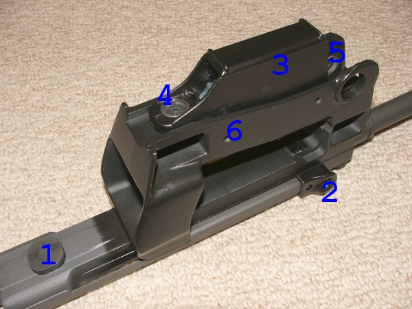 PS90 barrel group. 1. Receiver lock button, 2. Cocking handle, 3. Ring Sight MC-10-80 Reflex sight, 4. Elevation adjustment, 5. Windage adjustment Author: Metroplex